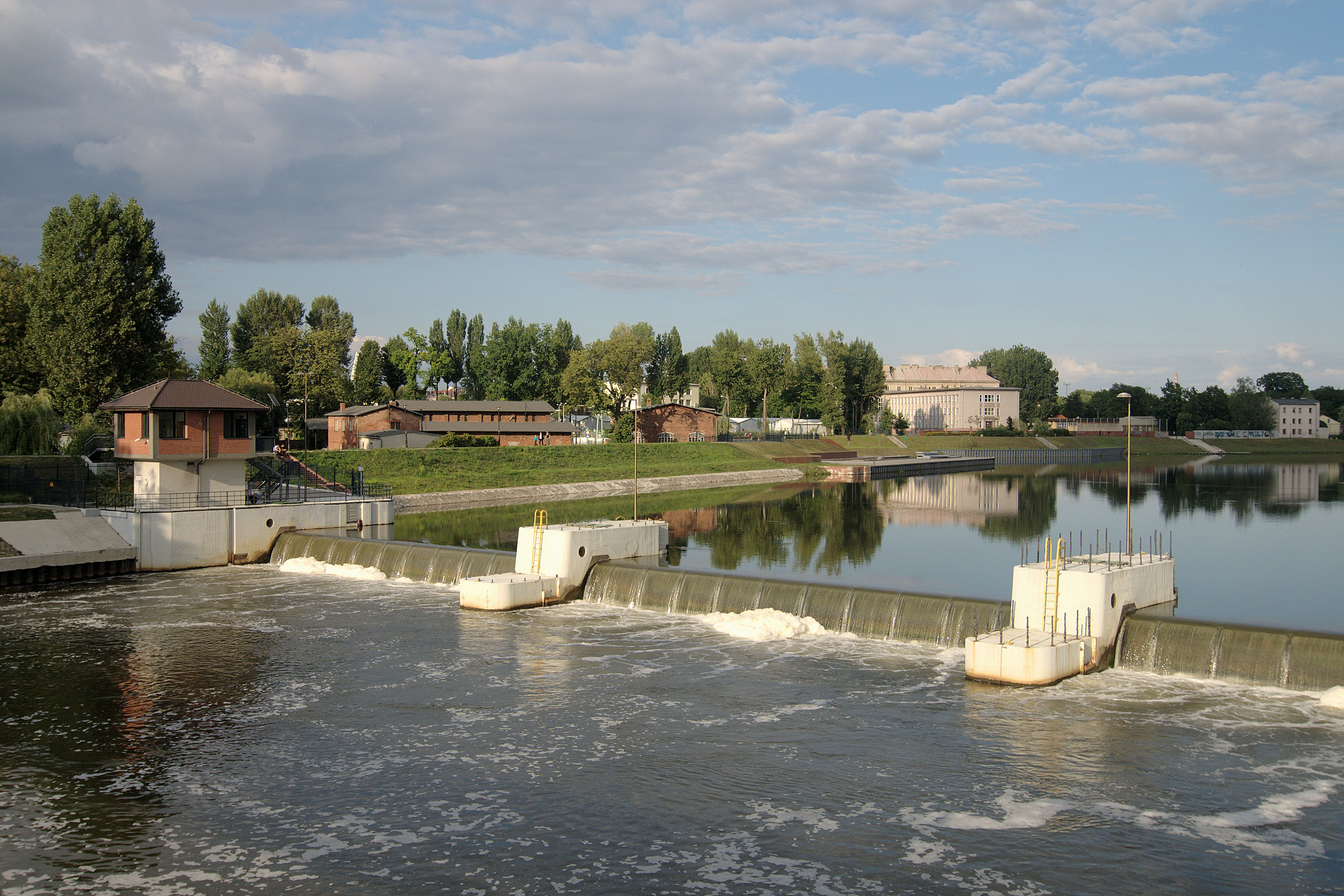 The weir in Opole-Bolko Island, Poland.